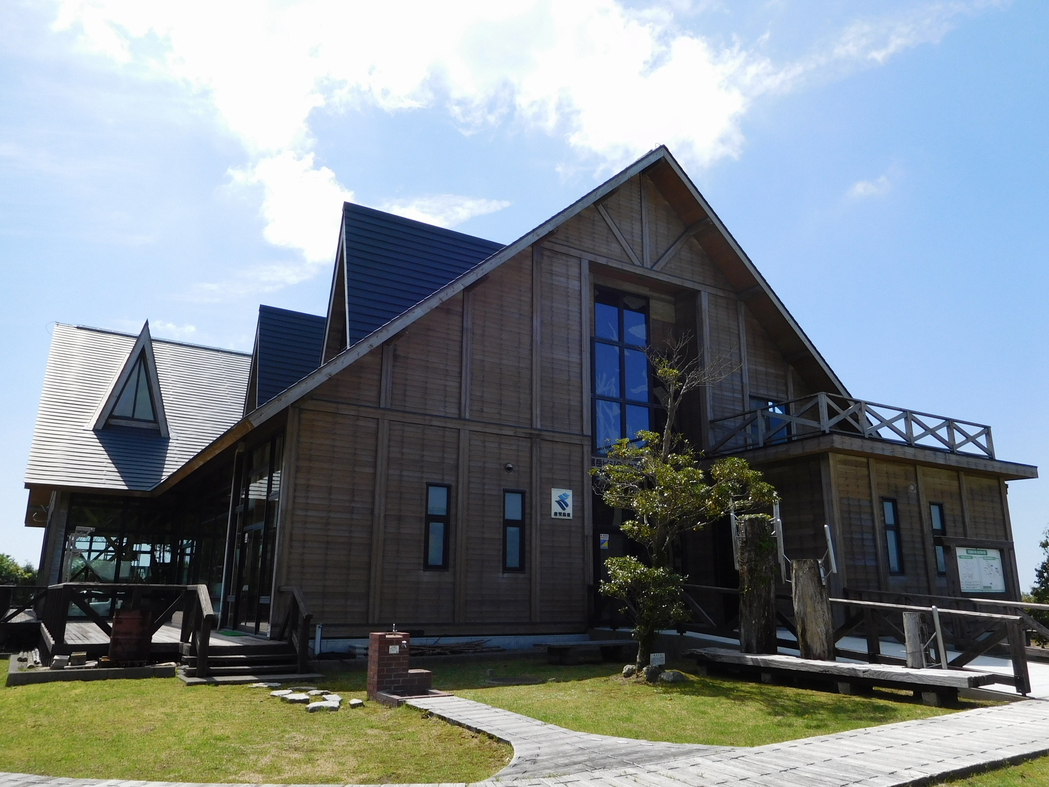 Inaodake Mountain Visitor Center (Kinko Town, Kagoshima Prefecture, Japan)